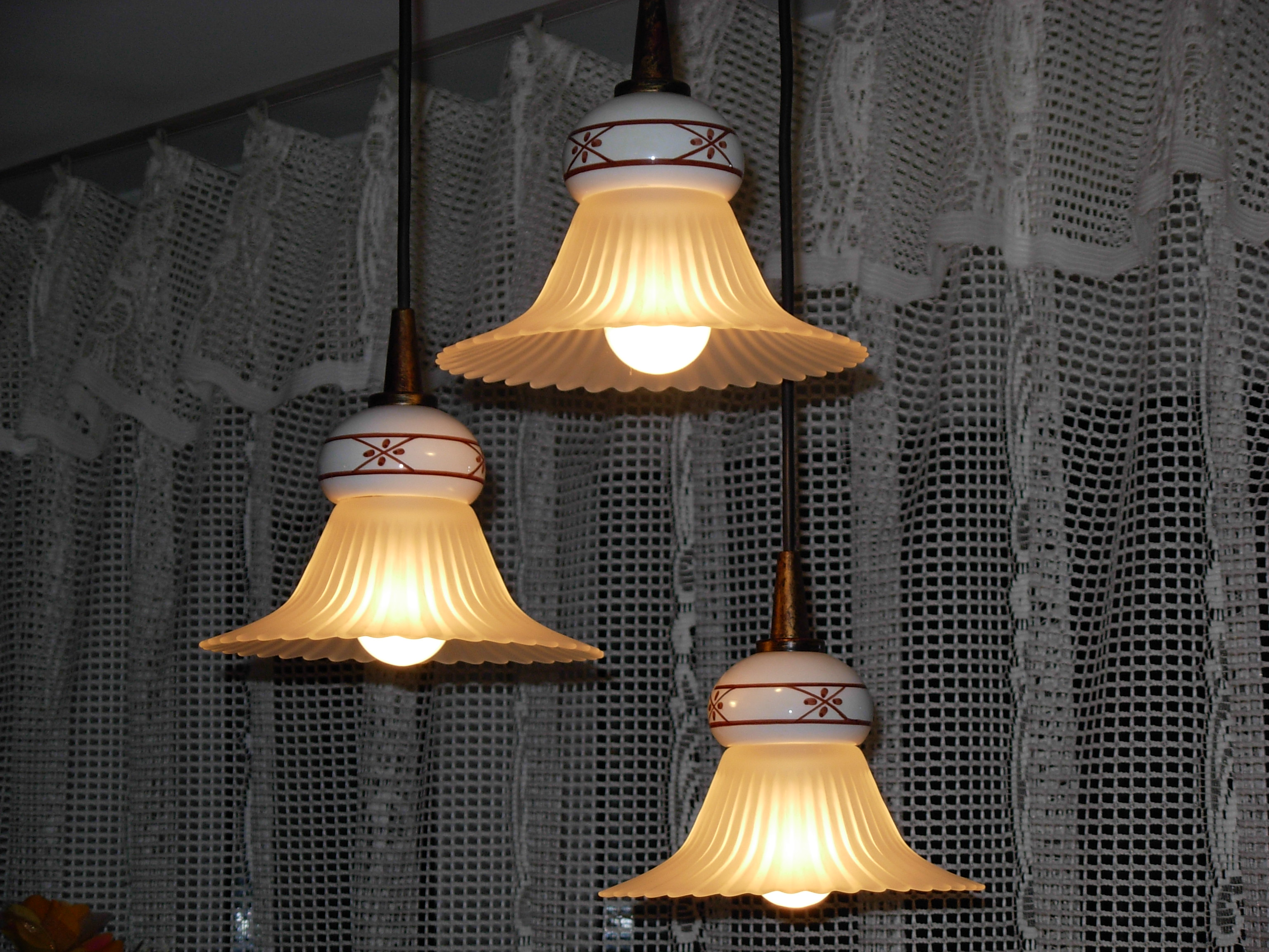 Photo by myself.